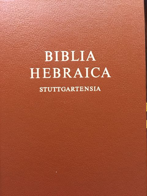 title cover of Biblia Hebraica Stuttgartensia